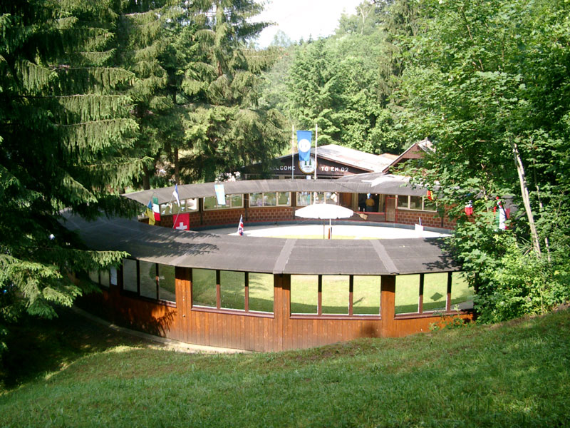 Tether car racetrack located in Kapfenhardt, Germany (2002 European Championships).